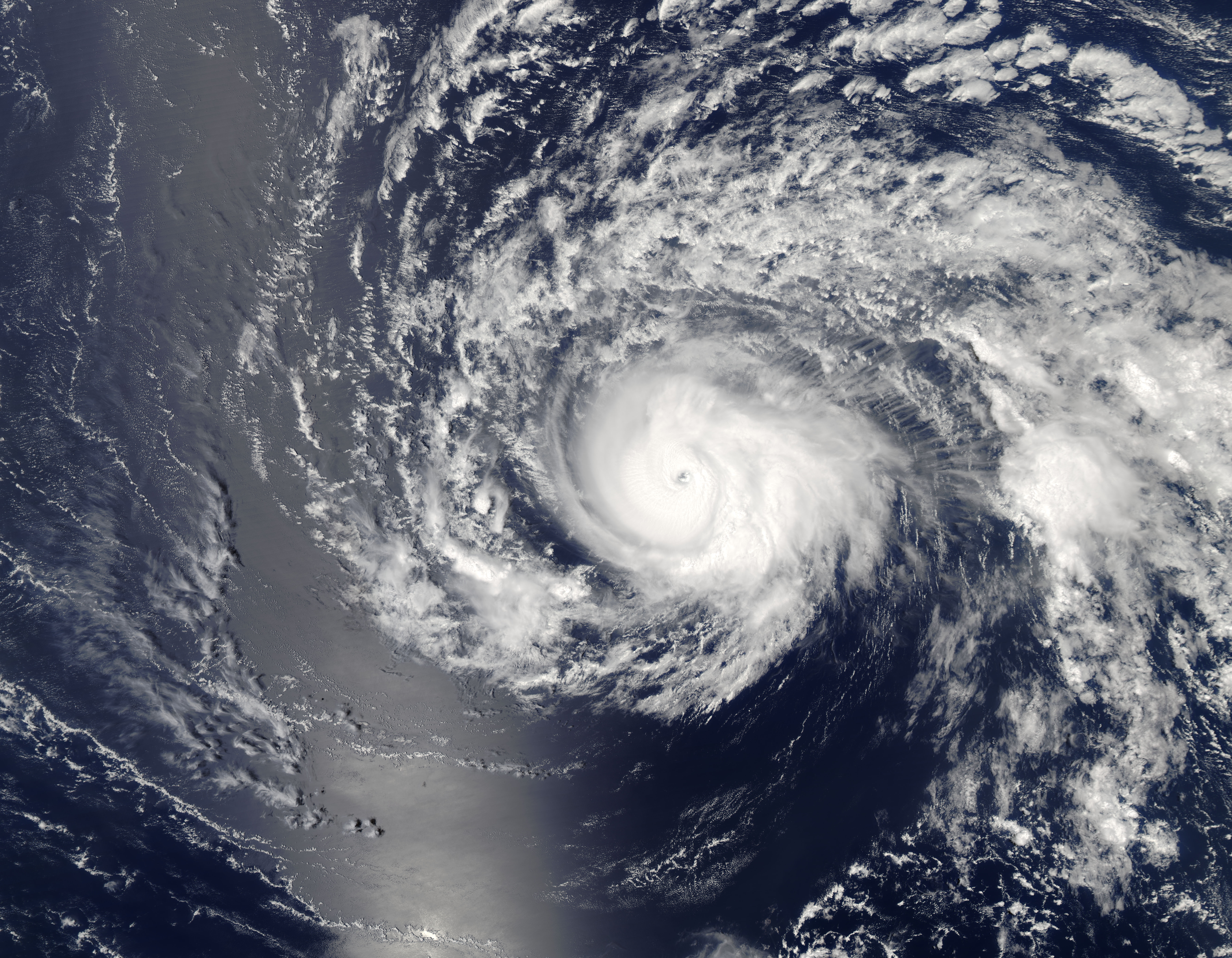 Hurricane Irma (11L) in the Atlantic Ocean